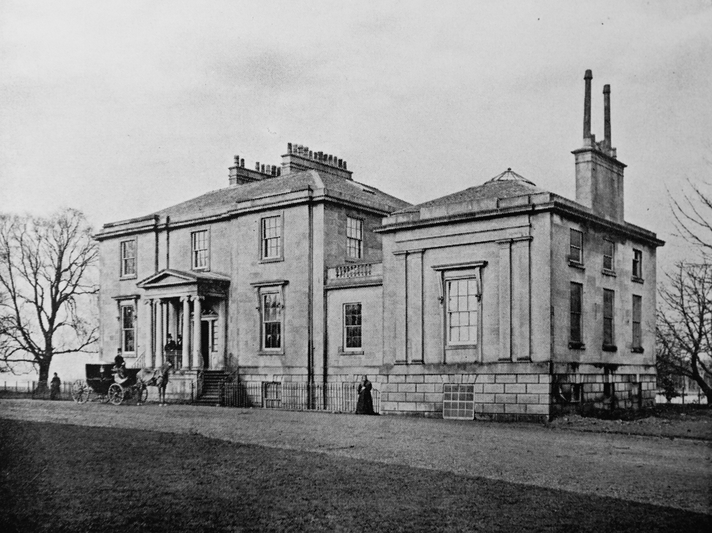 The Mansion House of Linthouse, 1869. Alexander Stephen is seen inspecting the house immediately before purchasing the estate for laying out as a shipyard.